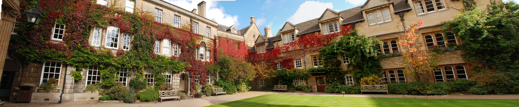 The old buildings quad of Hertford College, Oxford. These particular buildings comprise some of the college offices (at left) and the Senior Common Room (at right). The original college library and hall used to be here.